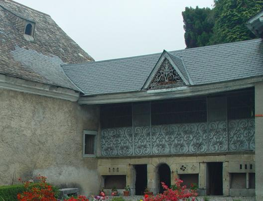 En ço de Borie barn in Bourréac near Lourdes. This typical barn of Lourdes country has a southern orientation to improve the dessication of the hay. On the right a typical wrought iron henhouse.